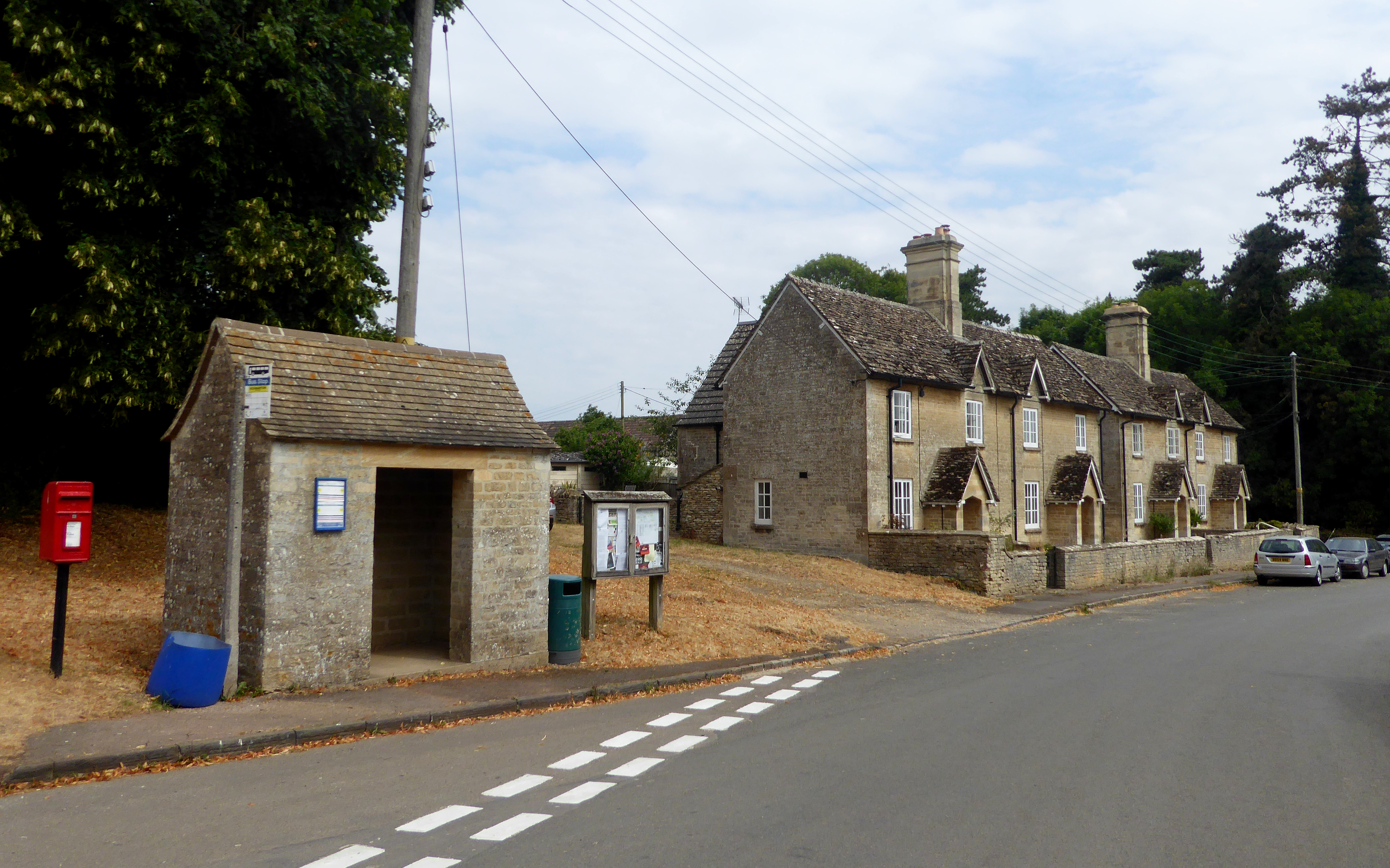 Bus stop and residential houses in Rodmarton, Gloucestershire.